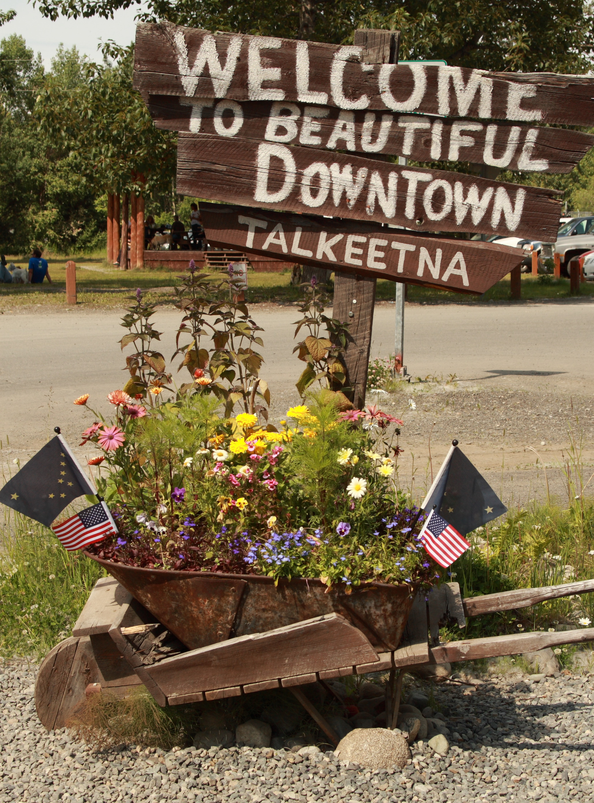 Taken during a day trip to Talkeetna, Alaska in July 2008.